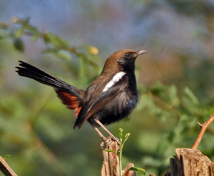 Indian Robin (Saxicoloides fulicata) at/ near Hodal in Faridabad District of Haryana, India.